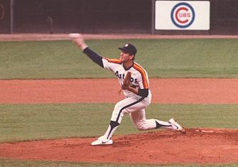 Close-up photograph of Nolan Ryan from 1983